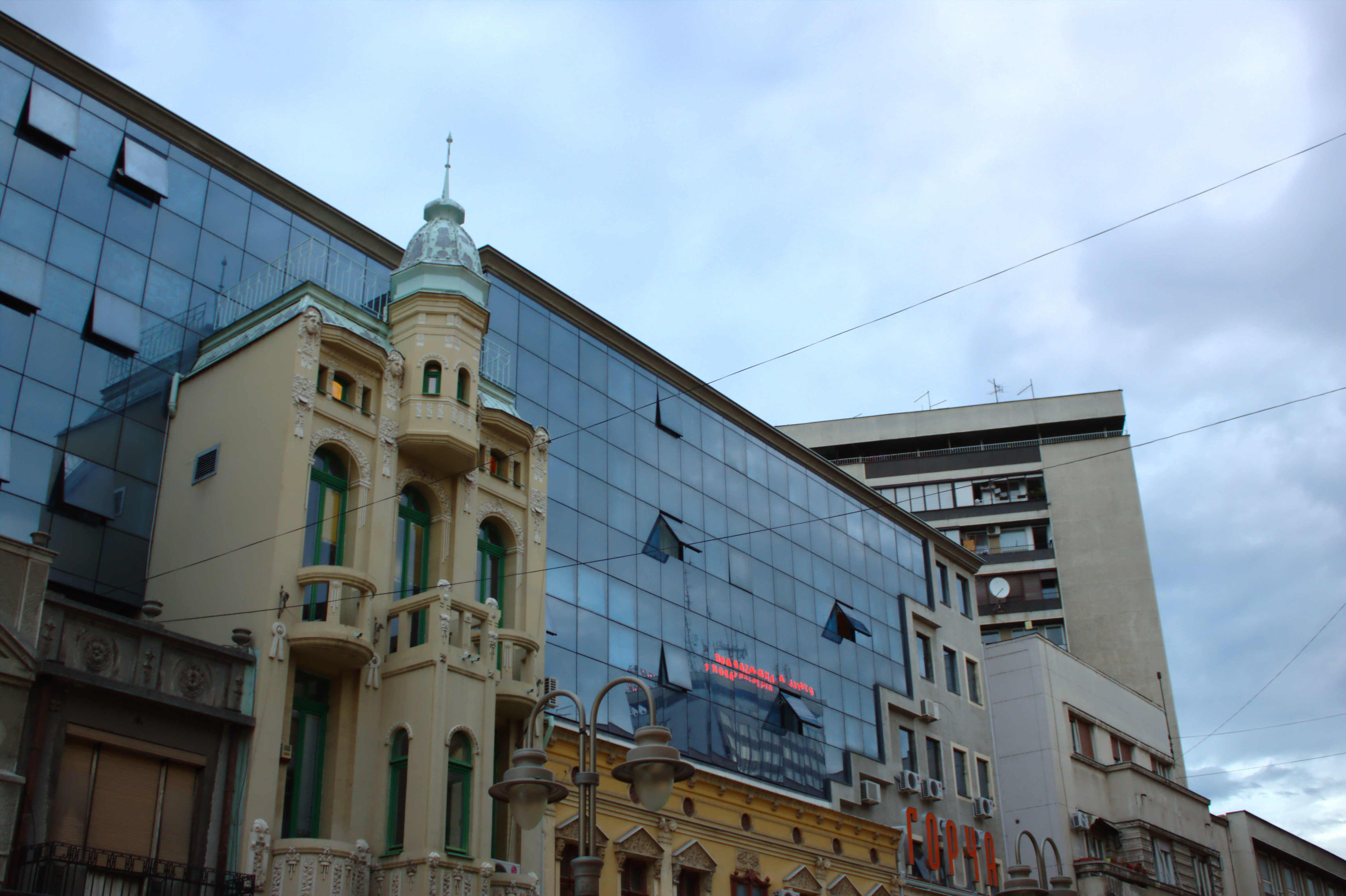 Facade of one of the buildings on the main street in Niš, Serbia